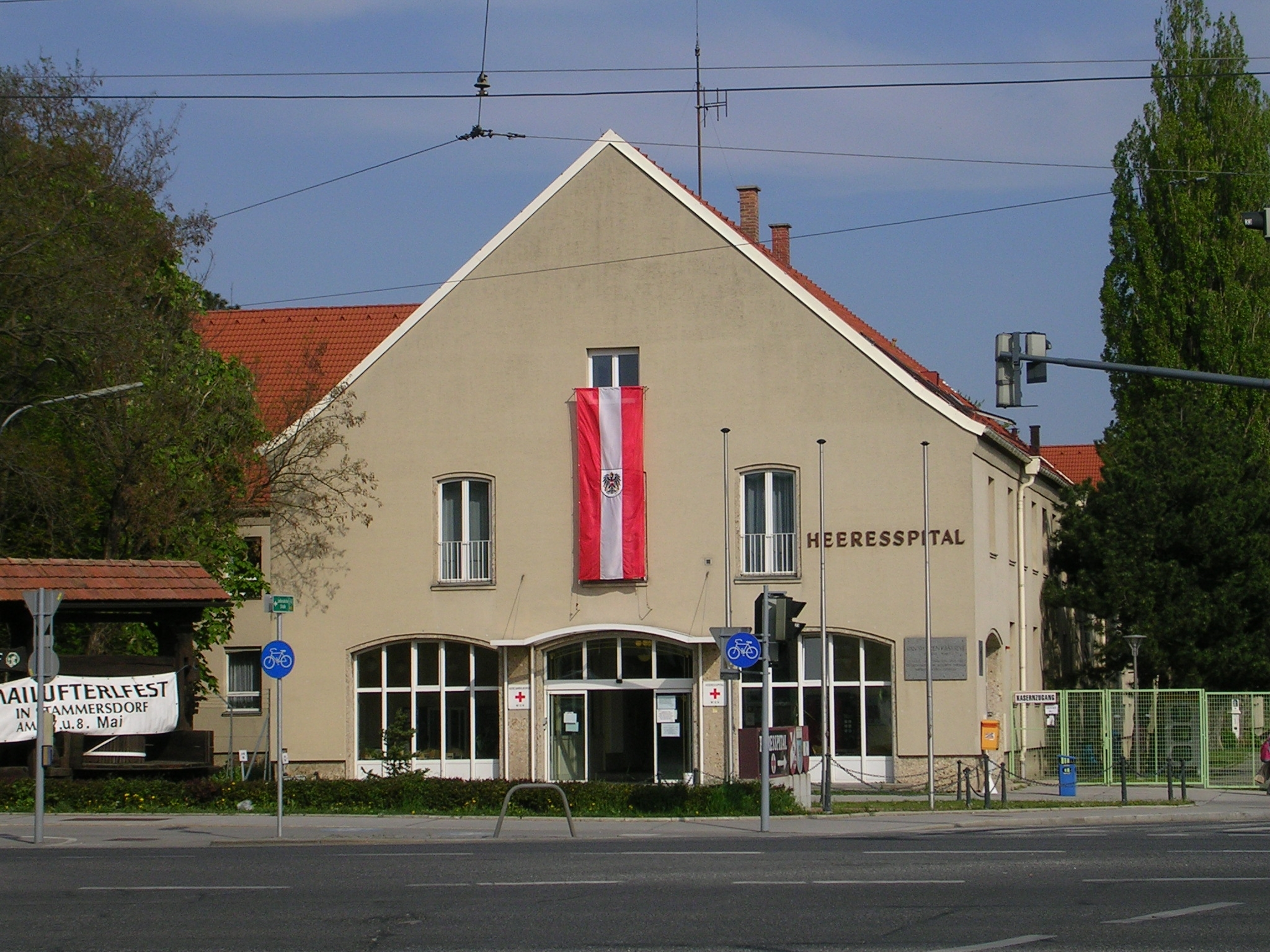 Heeresspital (army hospital) in Floridsdorf